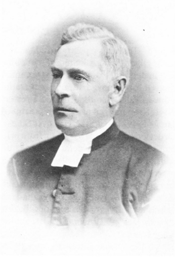 Portrait of the Reverend Claes Johan Ljungtröm. Ljungström wrote several books about various hundreds in the Province of Västergötland in Sweden.